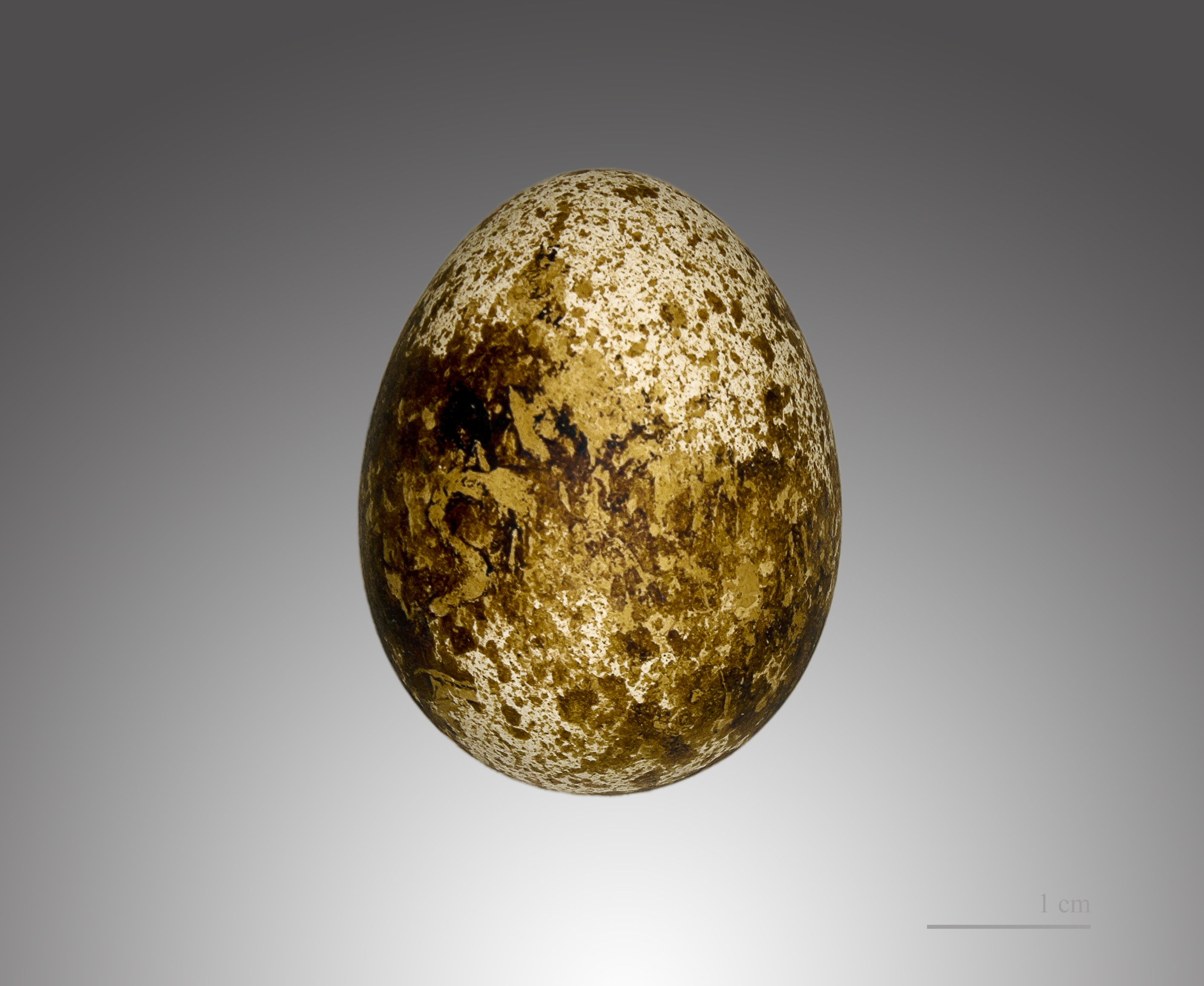 Egg of Red-footed Falcon. Collection of Henri Heim de Balsac /Jacques Perrin de Brichambaut. Locality: Odessa Ukraine.